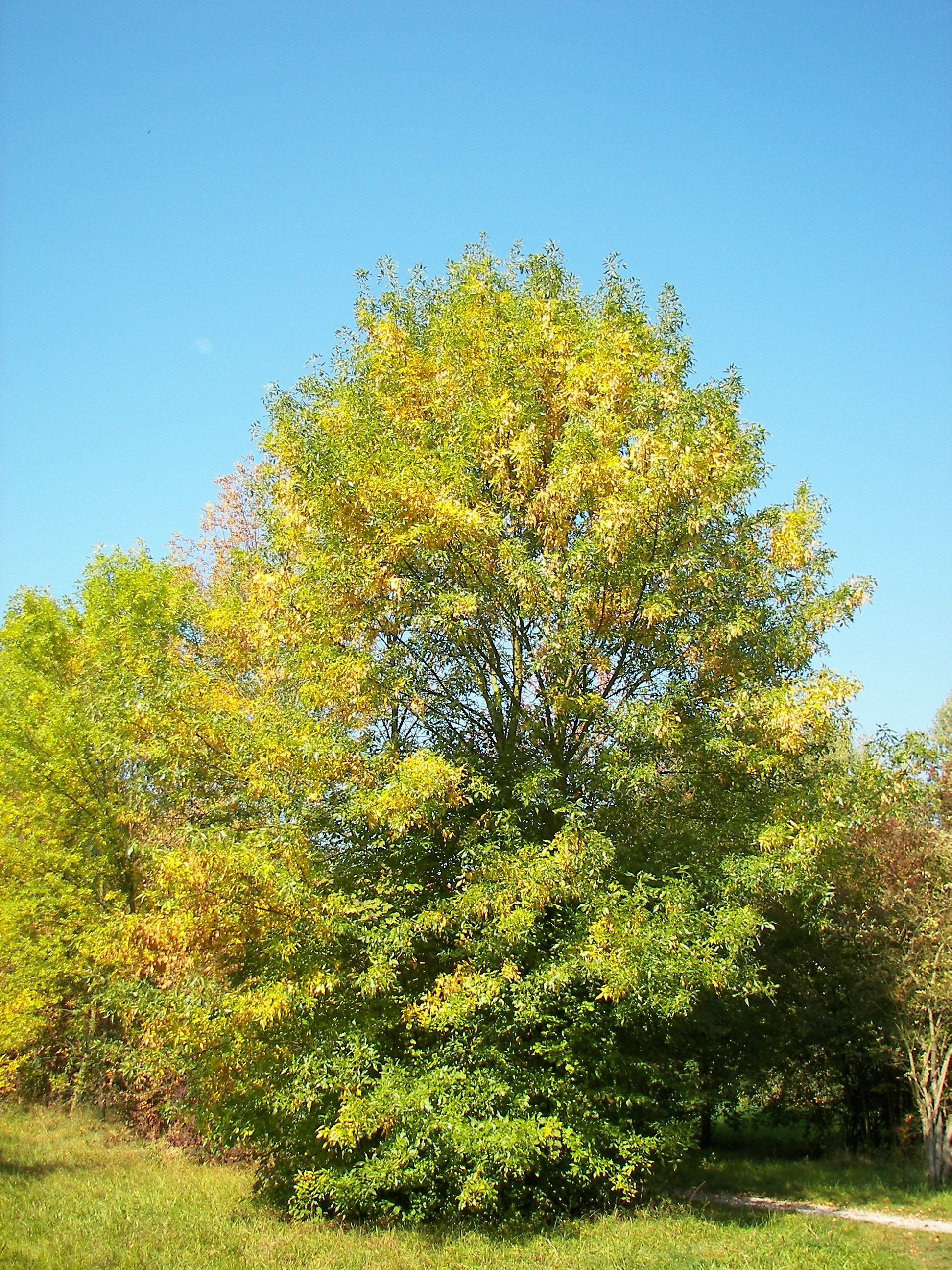 Flowering Ash (Fraxinus ornus), Location: Arboretum Main-Taunus, Eschborn, Hesse, Germany